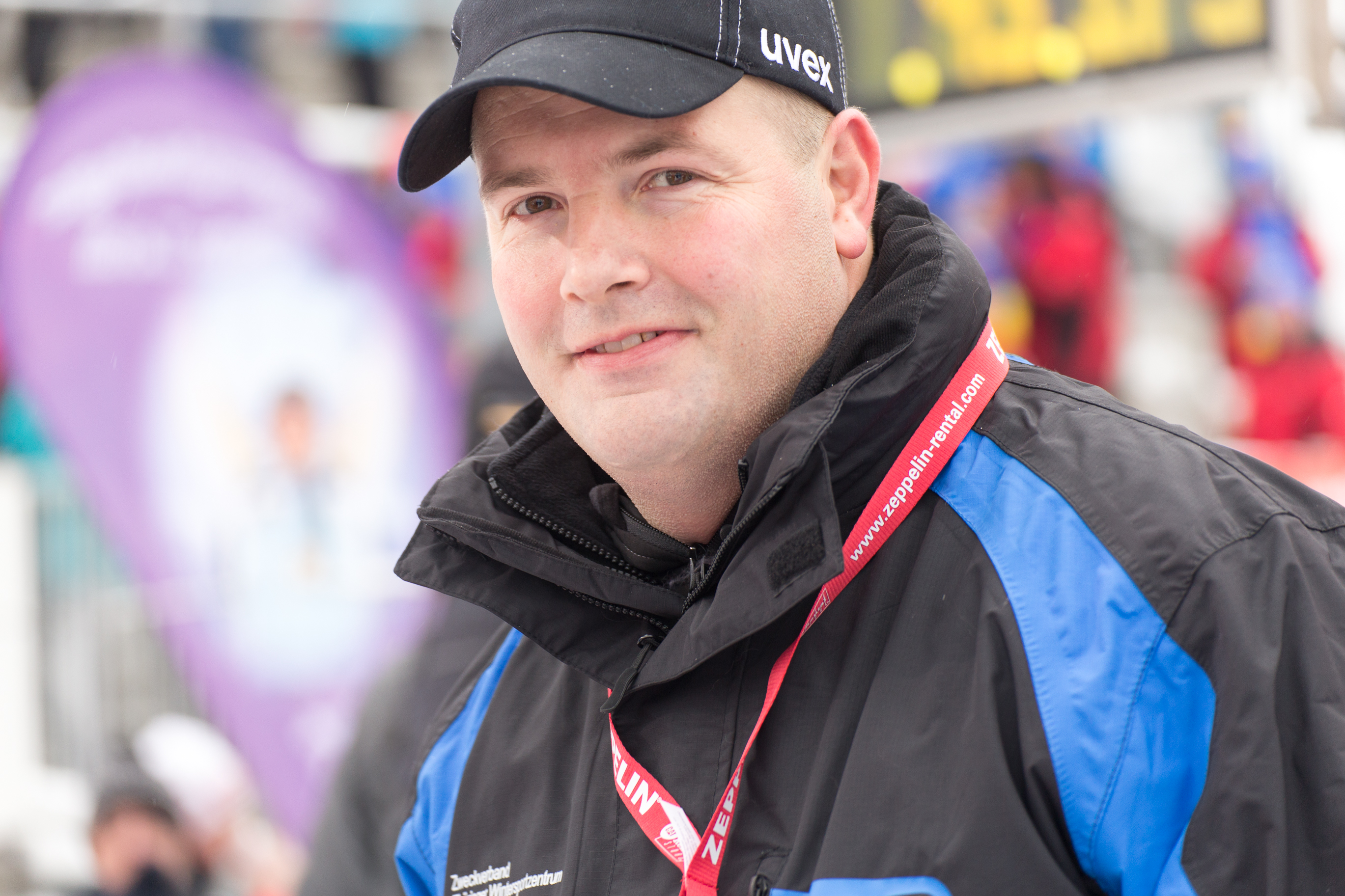 Luge world cup Oberhof 2016-01-16 André Lange